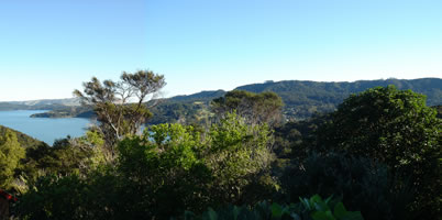 View of the Manukau Harbour looking west from Lainghom. Andy Williamson, June 2005.